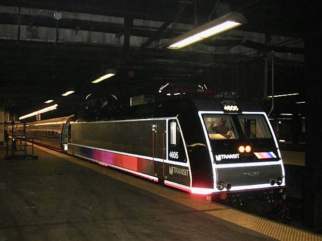 Bombardier ALP-46 in Philadelphia's 30th Street station on Fri, Oct 10th, 2003 at 07:45 in the morning.